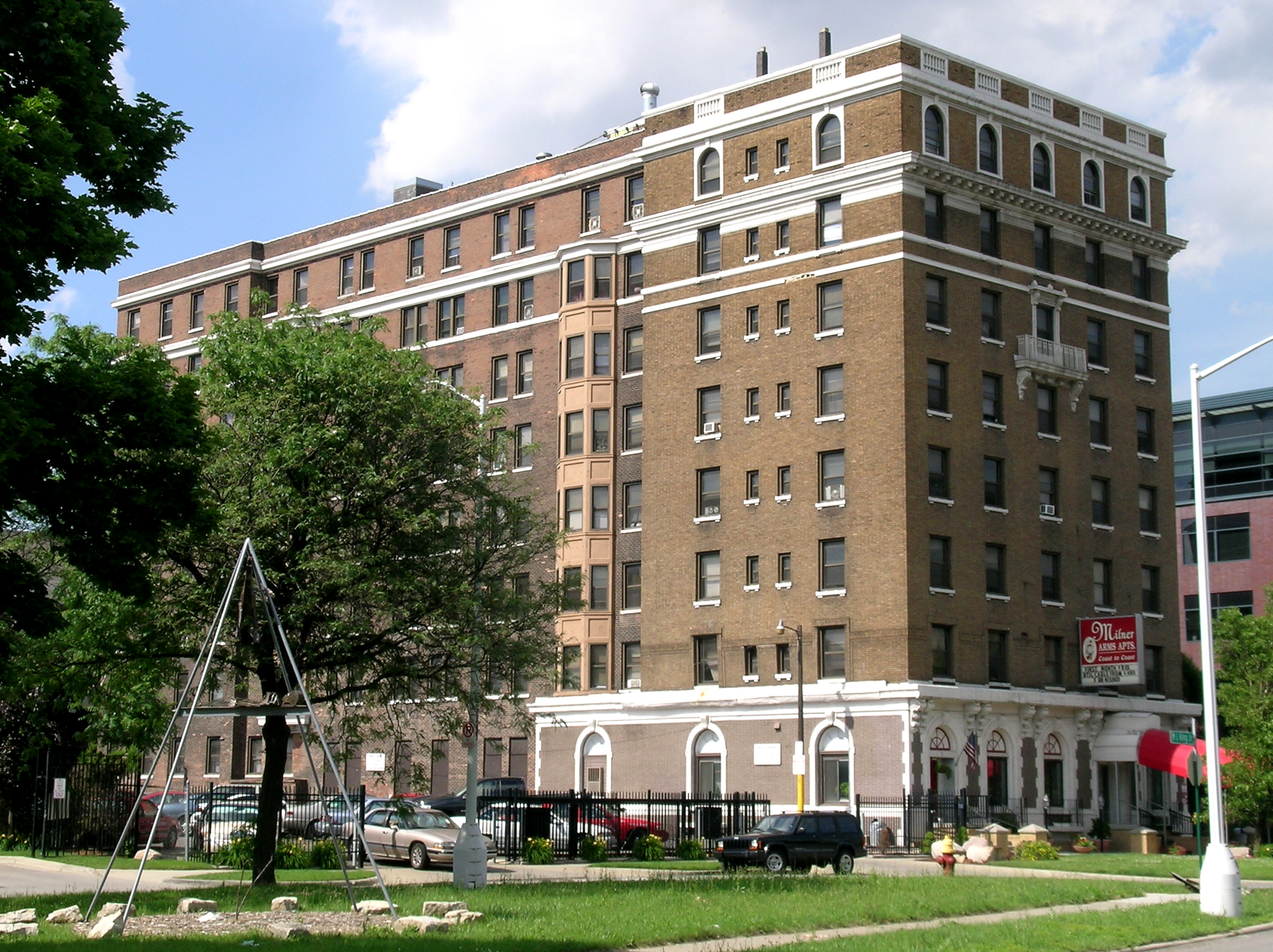 The Milner Arms Apartments in Detroit, Michigan, United States, is listed on the US National Register of Historic Places (NRHP) under its historic name of Hotel Stevenson. NRHP reference number 97001095